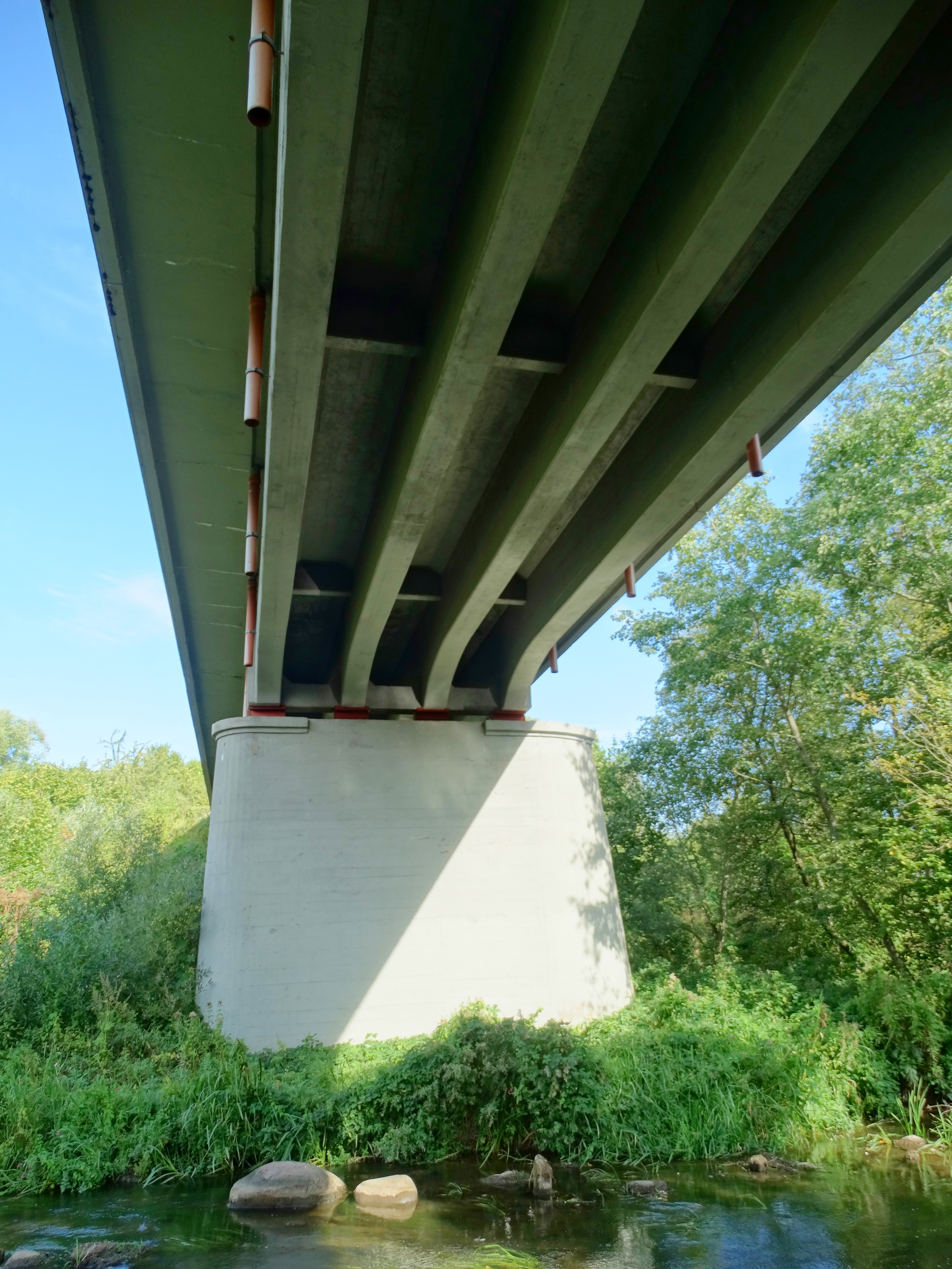 Bridge on Strėva river, Tadarava, Kaišiadorys district, Lithuania